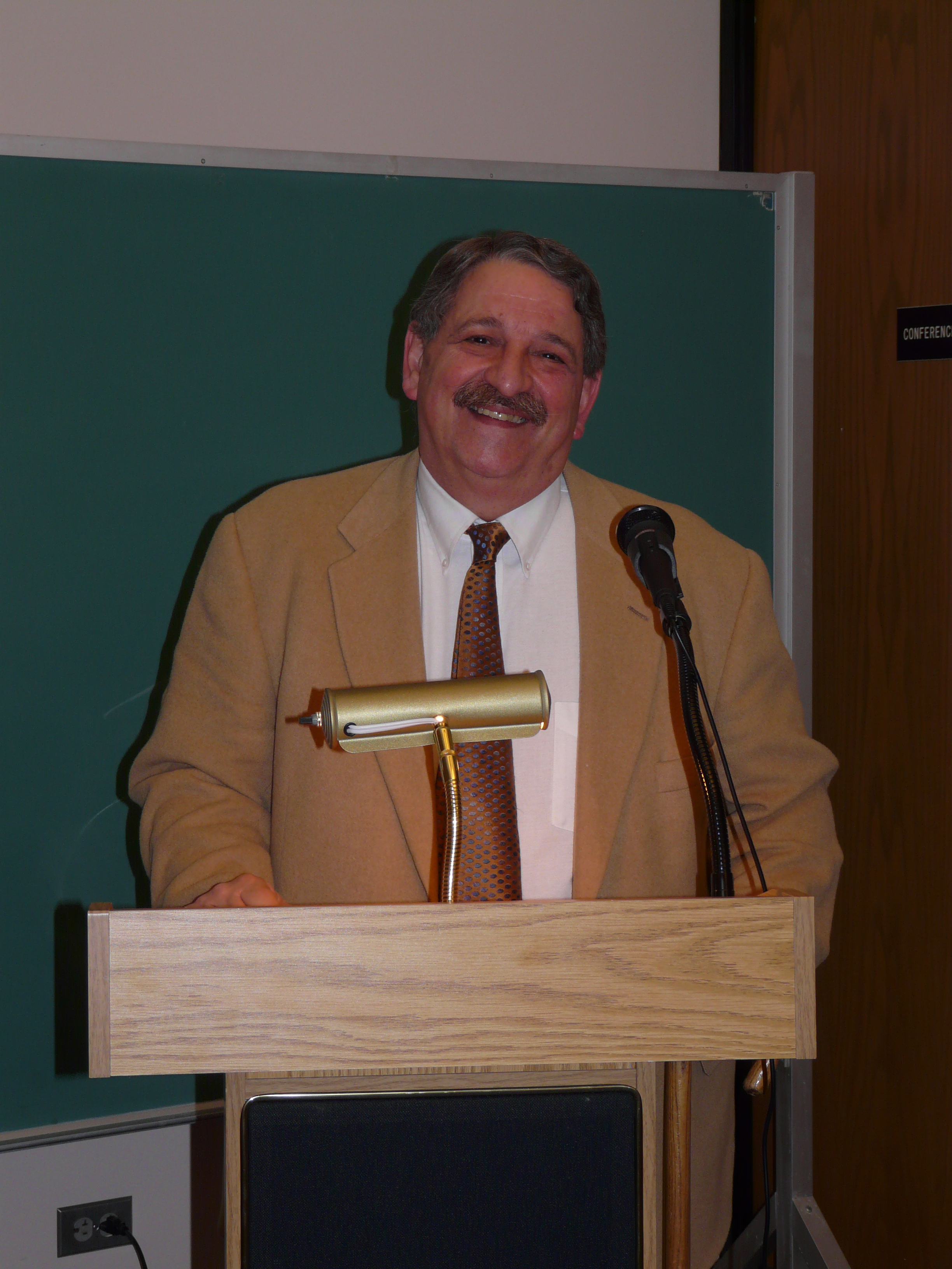 Professor Robert Donnorummo during his December 2008 retirement party